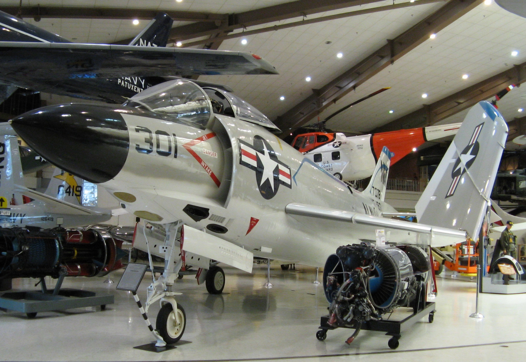 McDonnell F3H Demon, Naval Aviation Museum, Pensacola, Florida